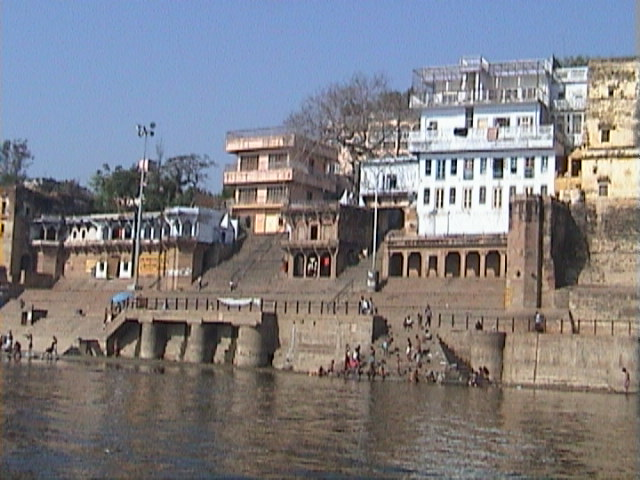 See Varanasi Development Cooperation Handbook/Stories/Responsible Development - Varanasi The Varanasi Heritage Dossier Kautilya Society Play media Vrinda Dar - How we got involved in heritage protection of Varanasi